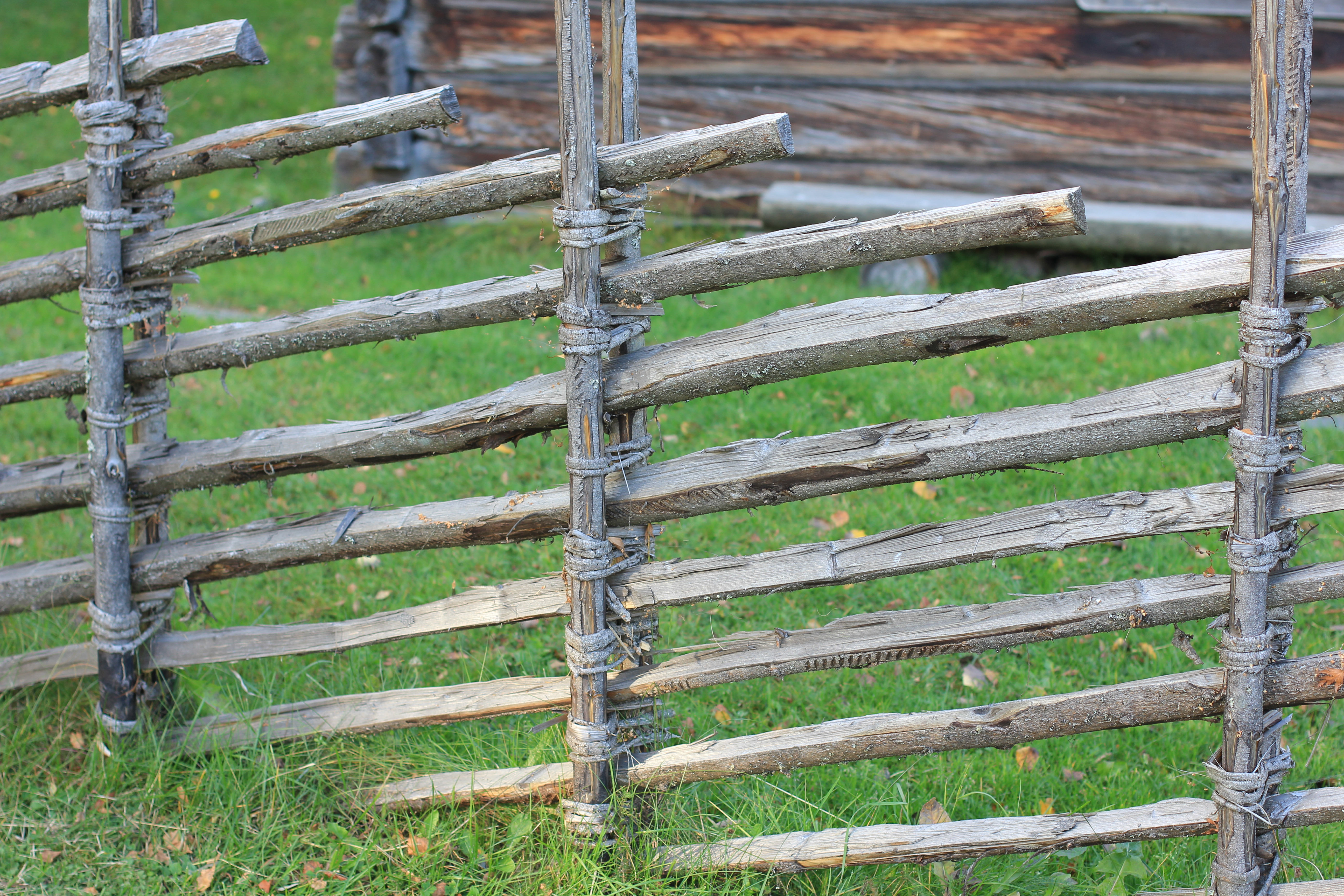 Traditional Norwegian fence.